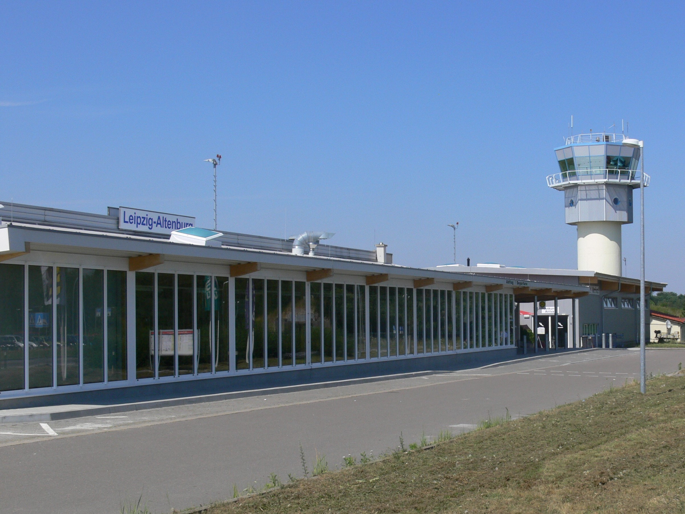 Terminal AOC after rebuild